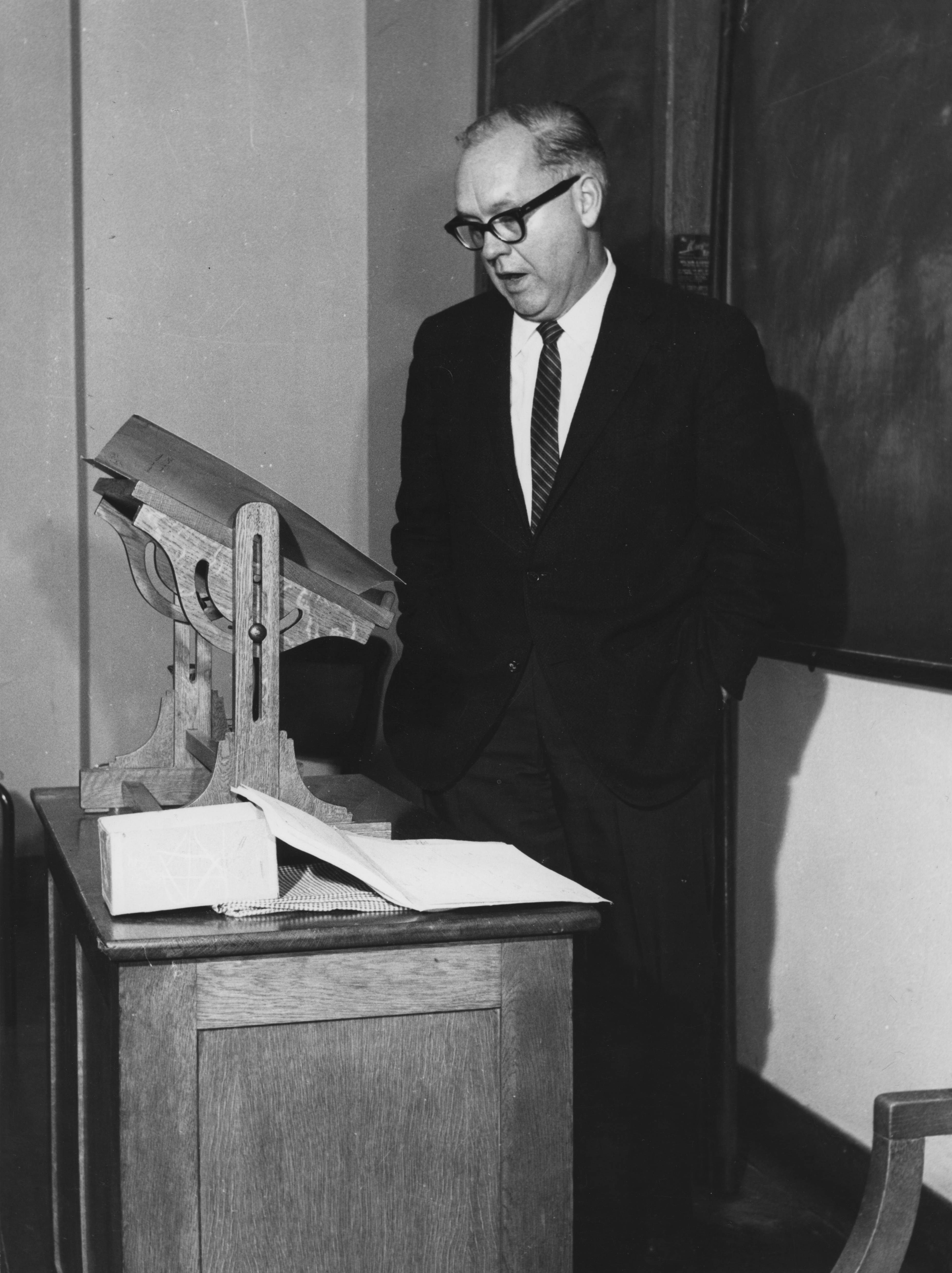 Professor of Political Science Information from his obituary by Donald G. MacRae in the LSE Magazine, June 1982, No63, p.9: 'Bob was born in British Columbia of Scotch ancestors on both sides of his family...He graduated from the University of British Columbia and taught there from 1937-1942 in history...He joined the Canadian Army, rose to the rank of Captain and camr to wartime England. He fell in love wityh London...and gravitated towards LSE. Bob registered for a PhD supervised by Harold Laski and Donald MacRae...He joined the the Department of Sociology at the School as a most successful teacher: there he remained and was made Professor of Sociology with Special Reference to Politics.' IMAGELIBRARY/722 Persistent URL